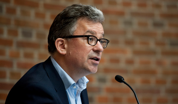 Dr Austen Ivereigh, author and commentator